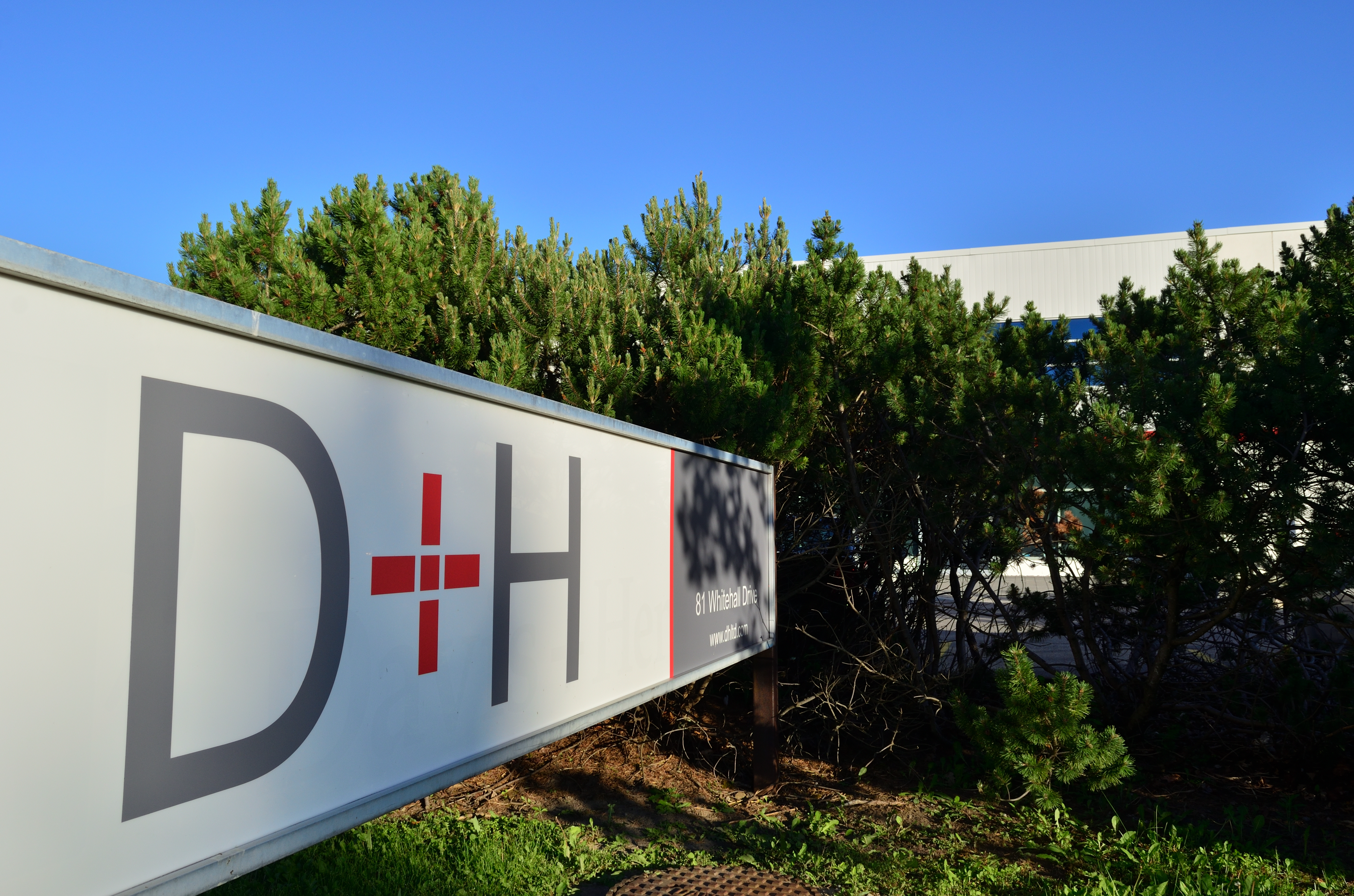 D+H Markham - Address: 81 Whitehall Dr, Markham, ON L3R 9T1